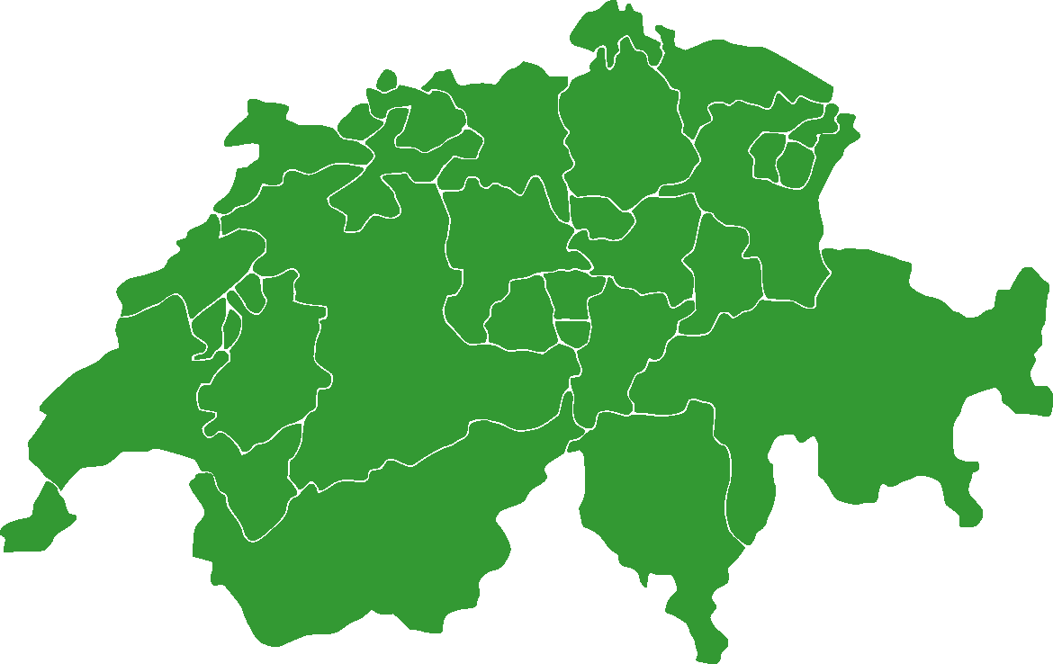 Map icon for navigation bars for articles about Swiss national park, etc.